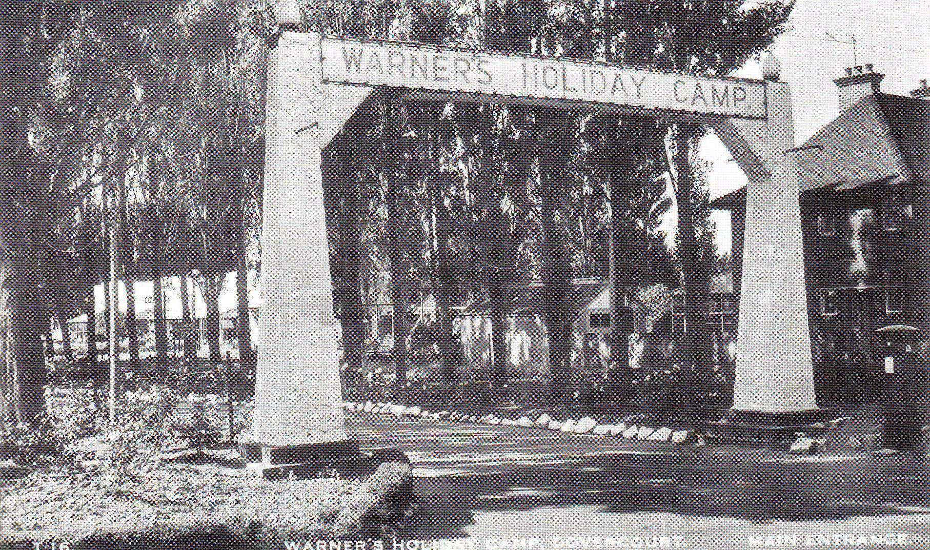 Warner's Holiday Camp was opened in 1937, and has been used to house Refugee Children as well as the filming of Hi-Di-Hi Tv Series.